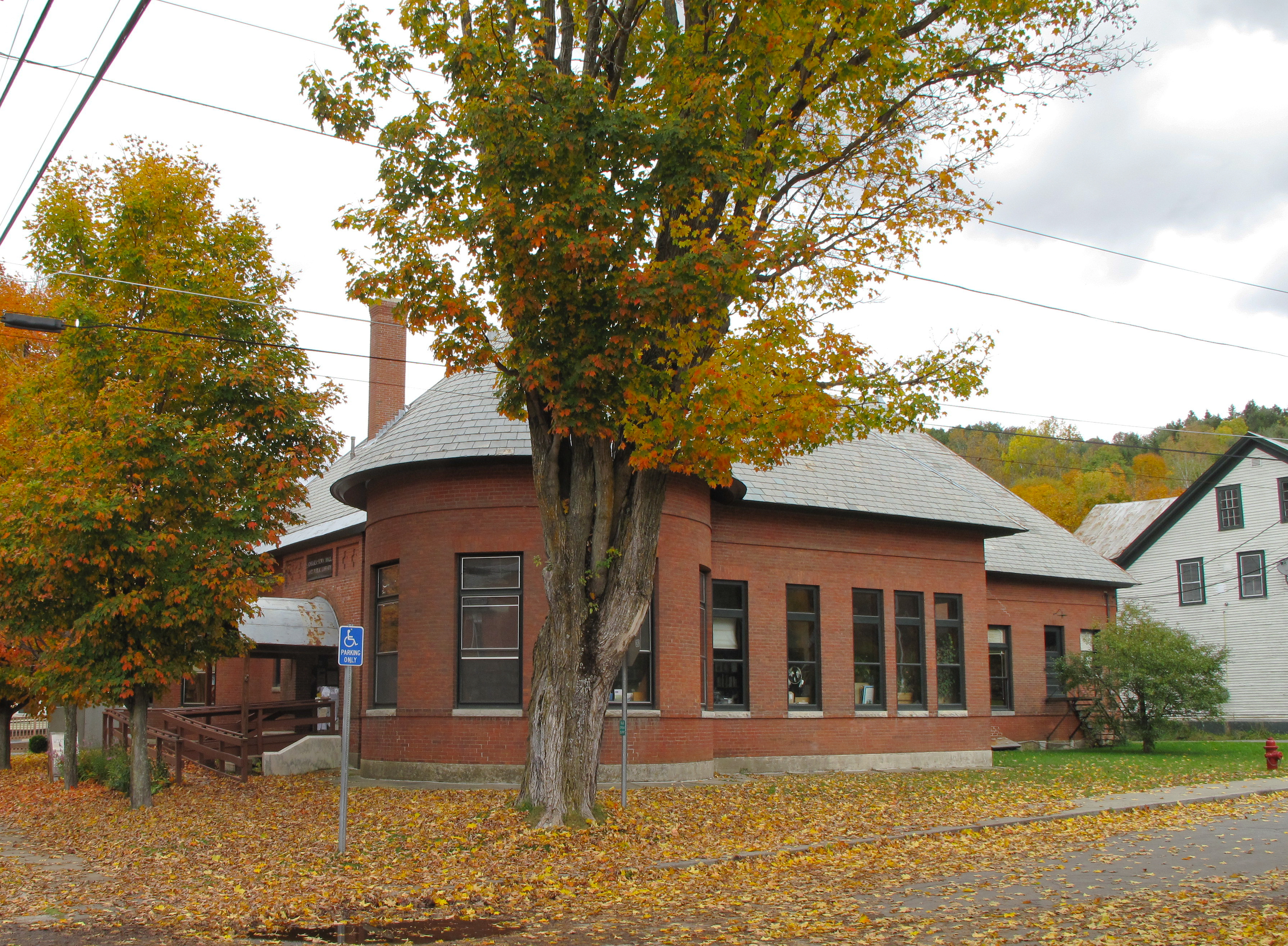 The library in Chelsea, Vermont, USA